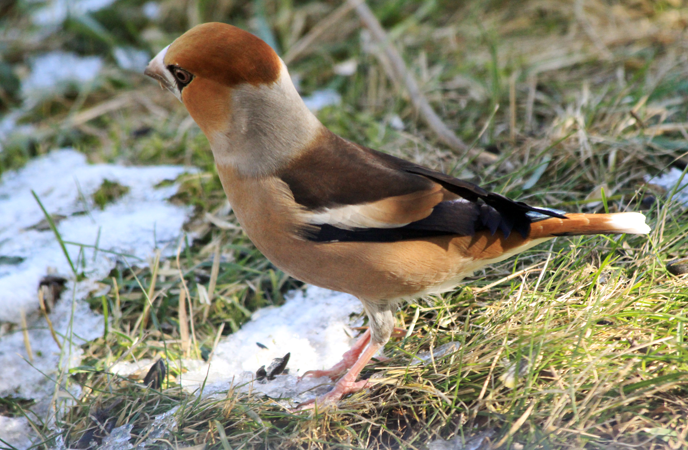 Hawfinch (Coccothraustes coccothraustes) under birthfeeder in Jaroměř, Czech Republic